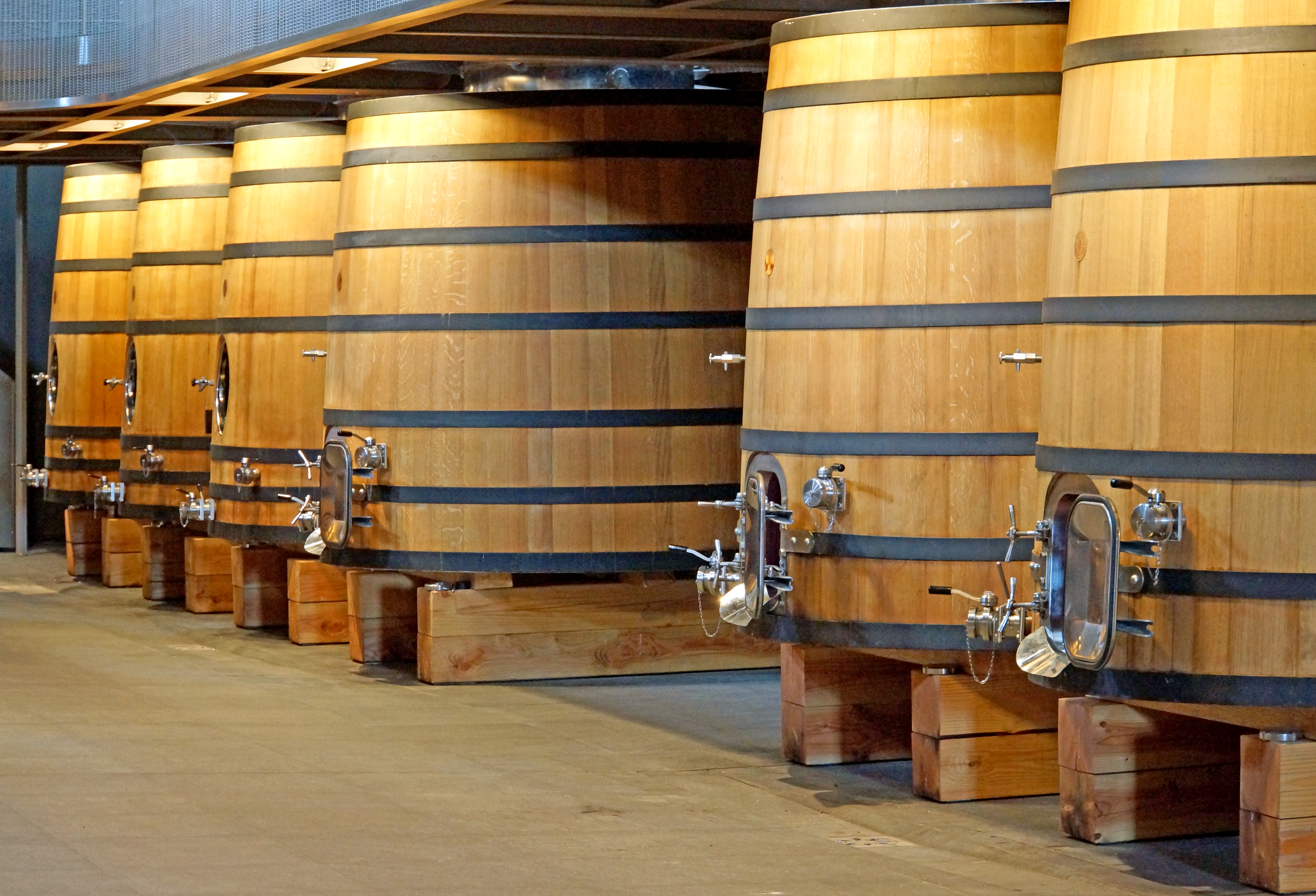 PLEASE, NO invitations or self promotions, THEY WILL BE DELETED. My photos are FREE to use, just give me credit and it would be nice if you let me know, thanks. A brand new, state-of-the-art winery and barrel cellar. There are oak and stainless containers used in the wine fermenting process, this depends on the wine being produced. Château Soutard is a beautiful, historic wine estate in St-Emilion and is one of the most grand and imposing in the region. Château Soutard began its existence in 1699. In 2006 Soutard was acquired by an Insurance company, La Mondiale. Soutard opens its doors to guests, with detailed tours and VIP tastings.